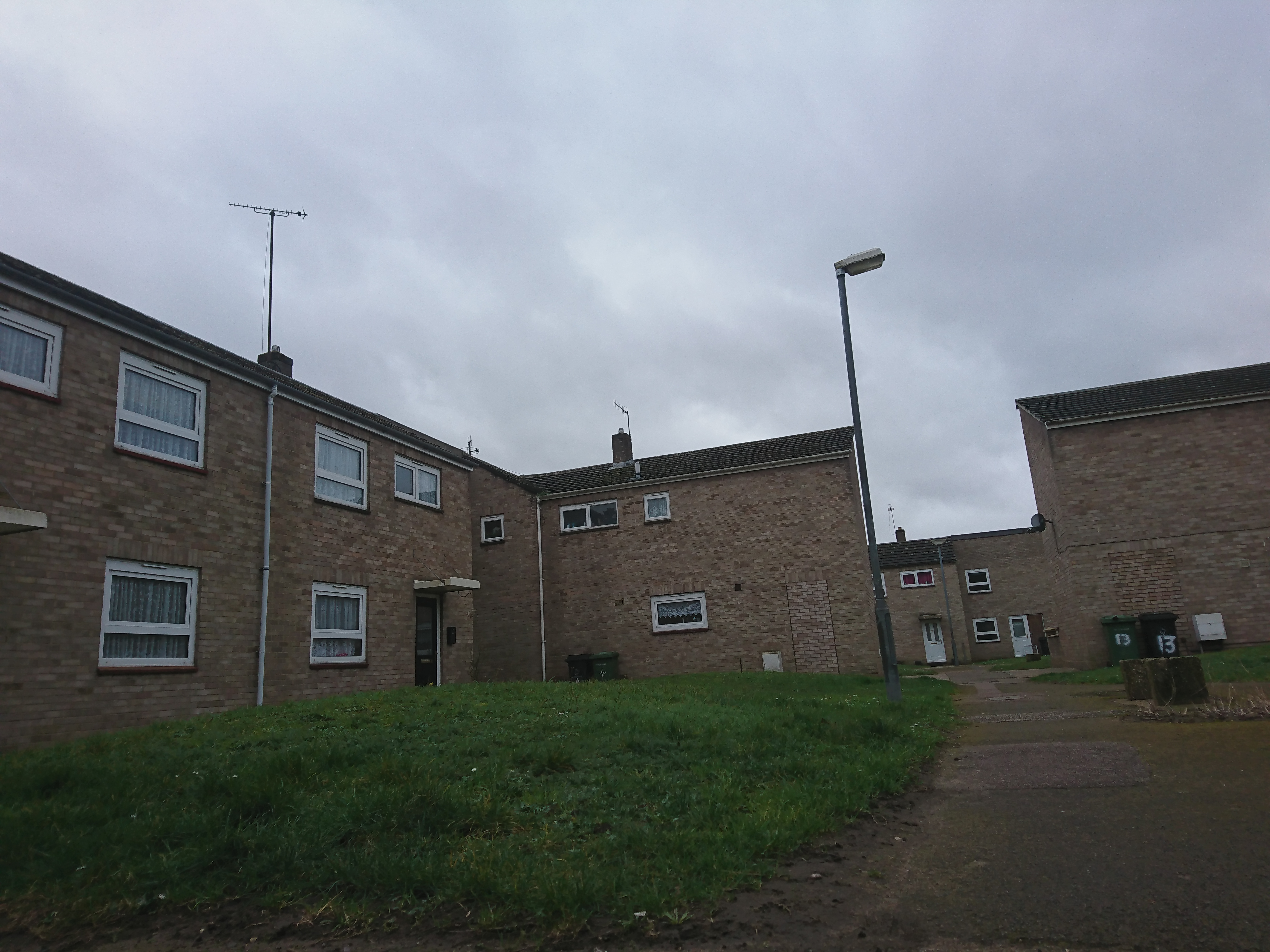 Housing estate by authorities in Thetford, Norfolk